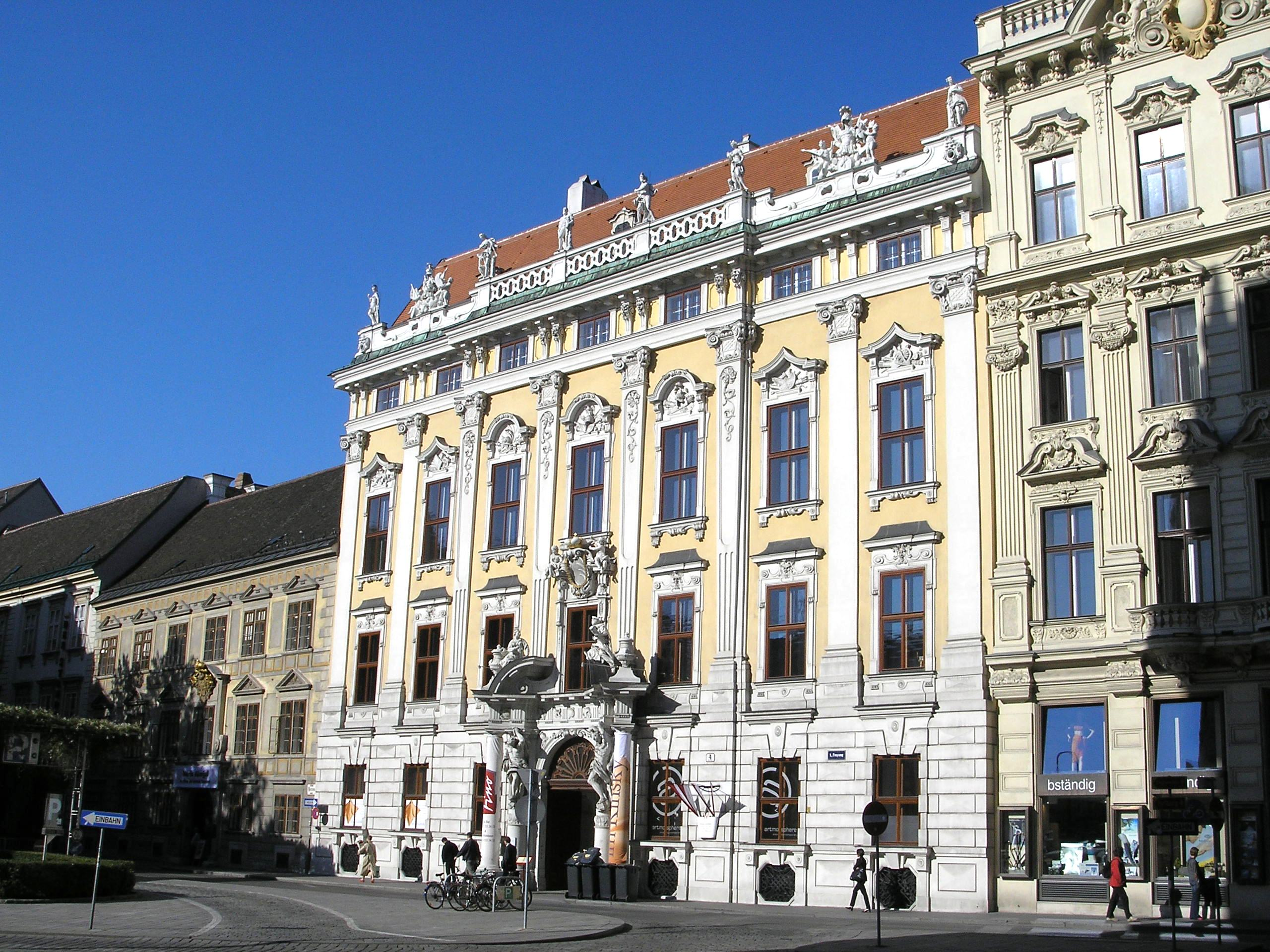 The Palais Kinsky at the Freyung in Vienna. Built in the baroque era for the noble Kinsky von Wichnitz und Tettau family.